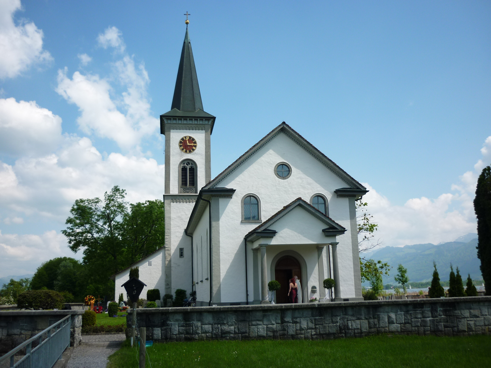 Catholic Church Busskirch, Rapperswil-Jona, Switzerland, 7th century